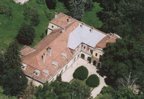 Somogysárd, Hungary, aerialphotography (Somssich Mansion) This is a photo of a monument in Hungary, Identifier: 8088